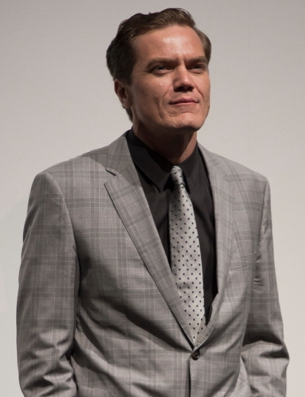 Michael Shannon at the Toronto International Film Festival 2012.